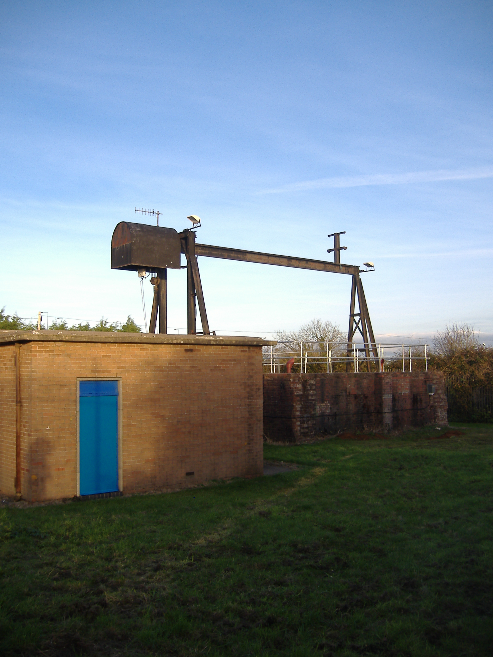 A pumping station for the Severn Tunnel near Severn Beach.